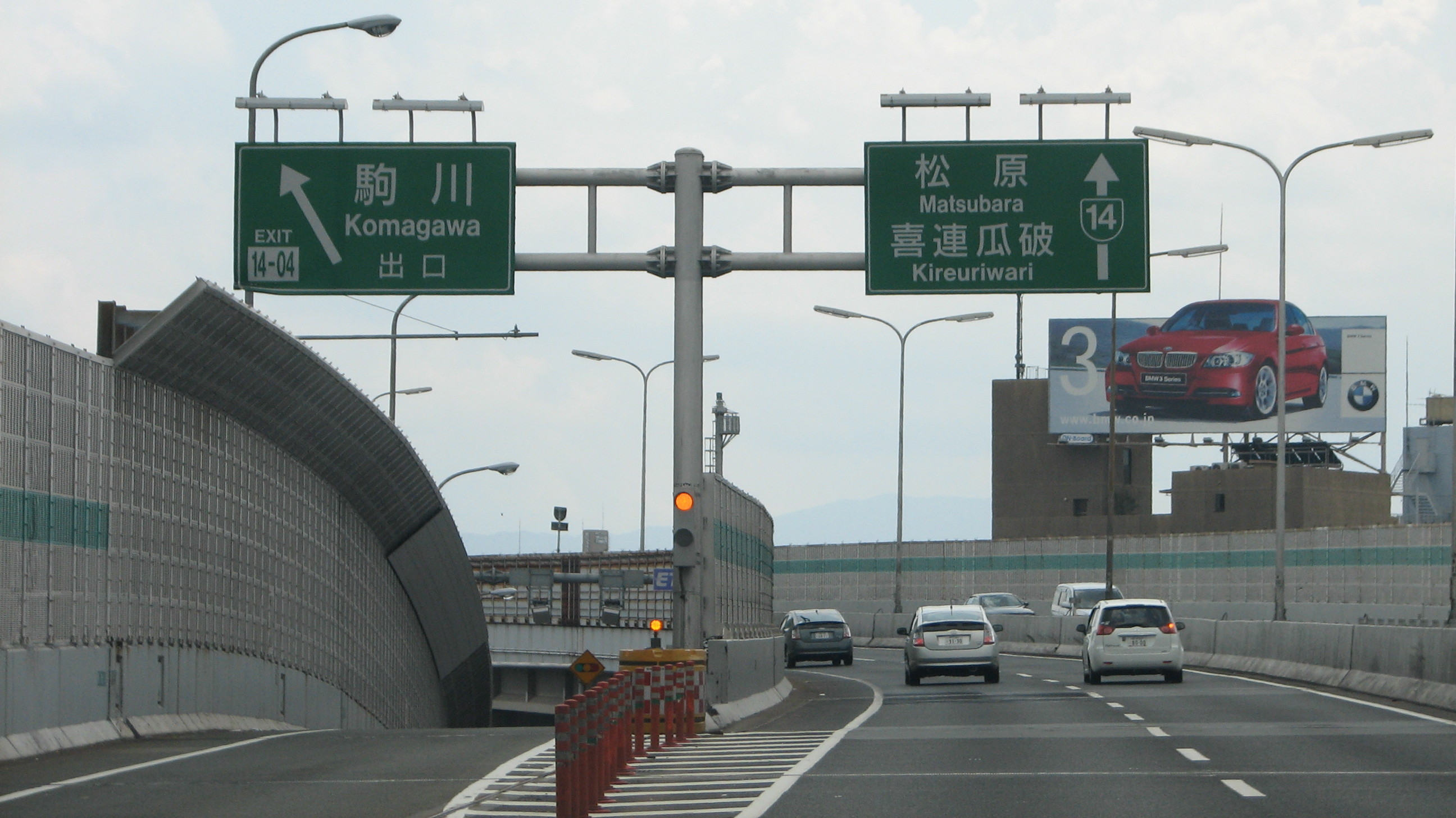 Hanshin Expressway Komagawa IC